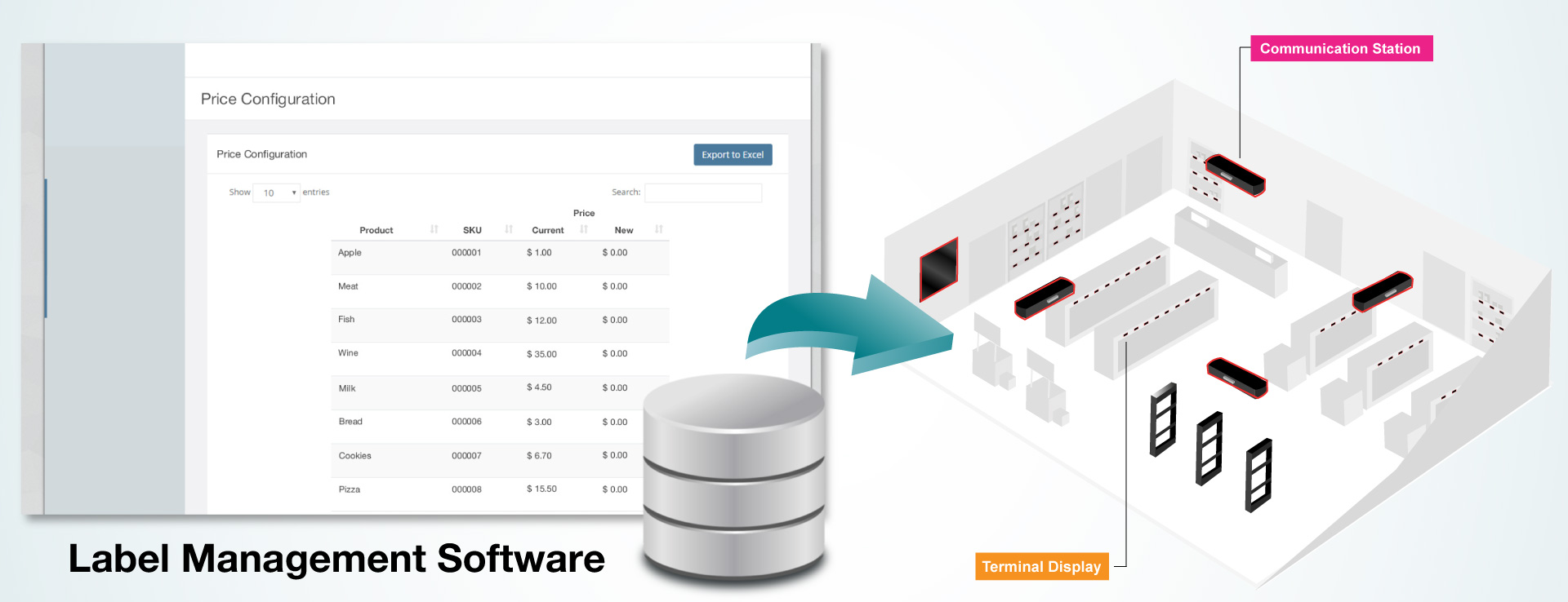 Conceptual diagram of the connection between label management software, the communication stations, and their transmittance of the data to the terminal display.